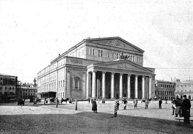 Bolshoi Theatre, Moscow, Russia. 1905